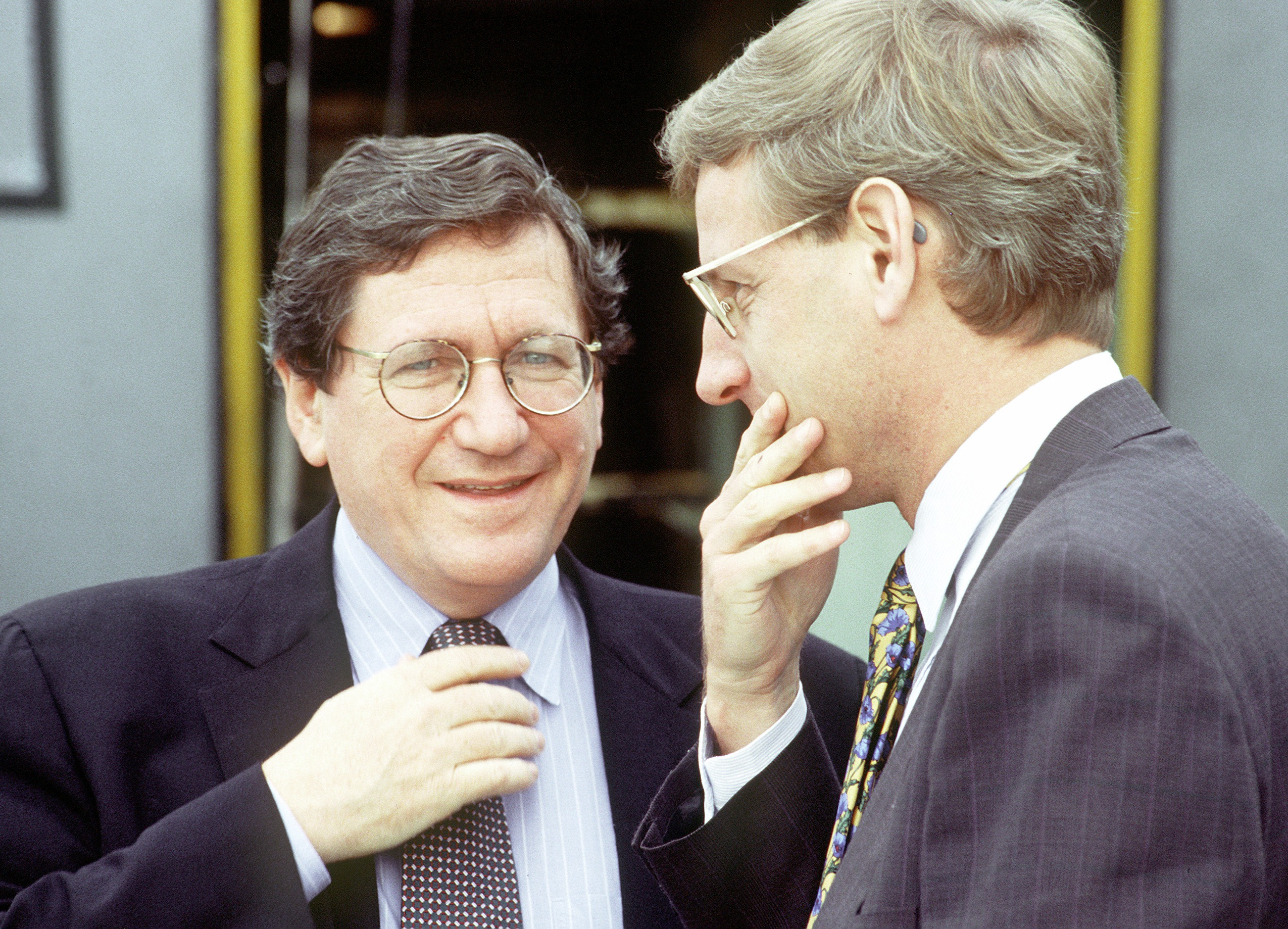 U.S. Assistant Secretary of State Richard Holbrooke (left) and Carl Bildt discuss upcoming events while waiting for a C-130 Hercules aircraft which will fly the diplomats into Sarajevo, Bosnia-Herzegovina, for peace talks.